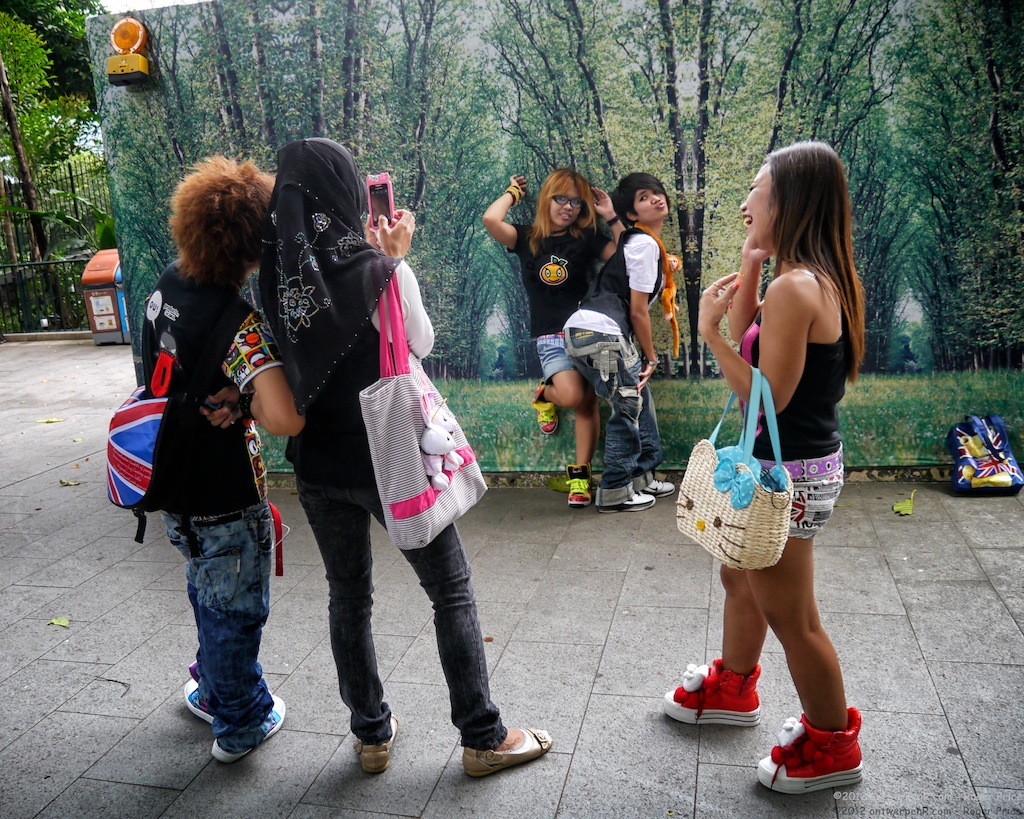 Girls do have fun dressing up at the weekend in the park